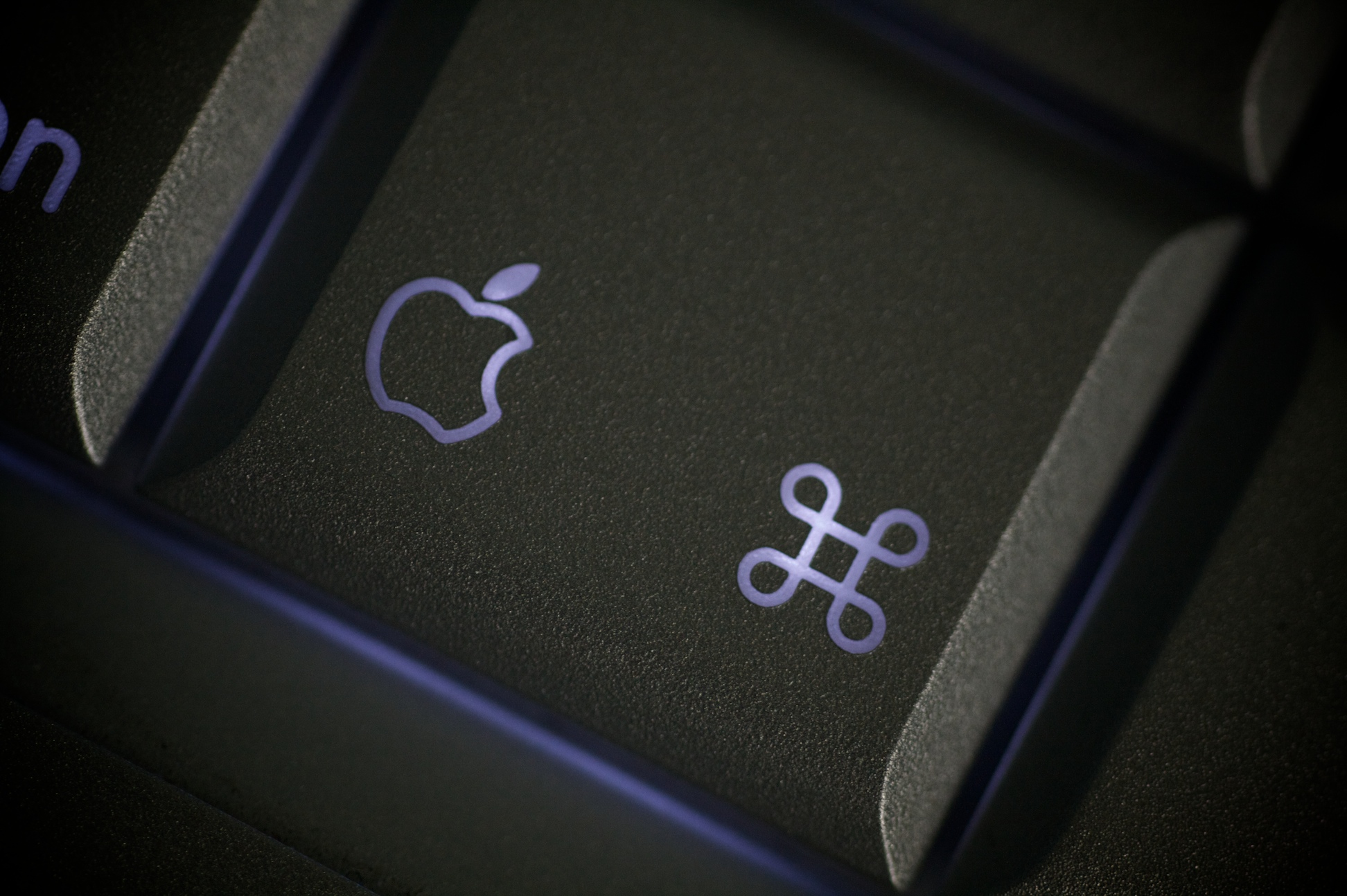 Apple MacBook Pro